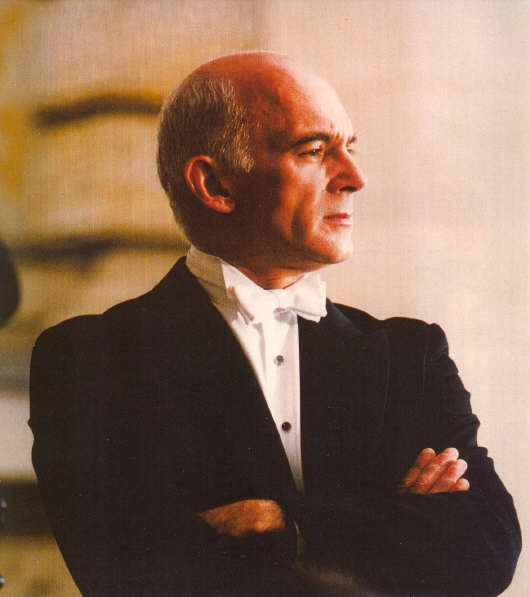 Prof. Dr. Alun Francis (Great Britain)